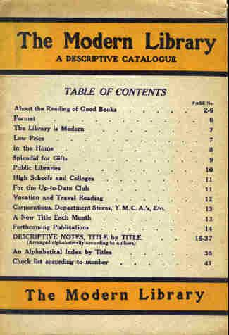 Modern Library catalog